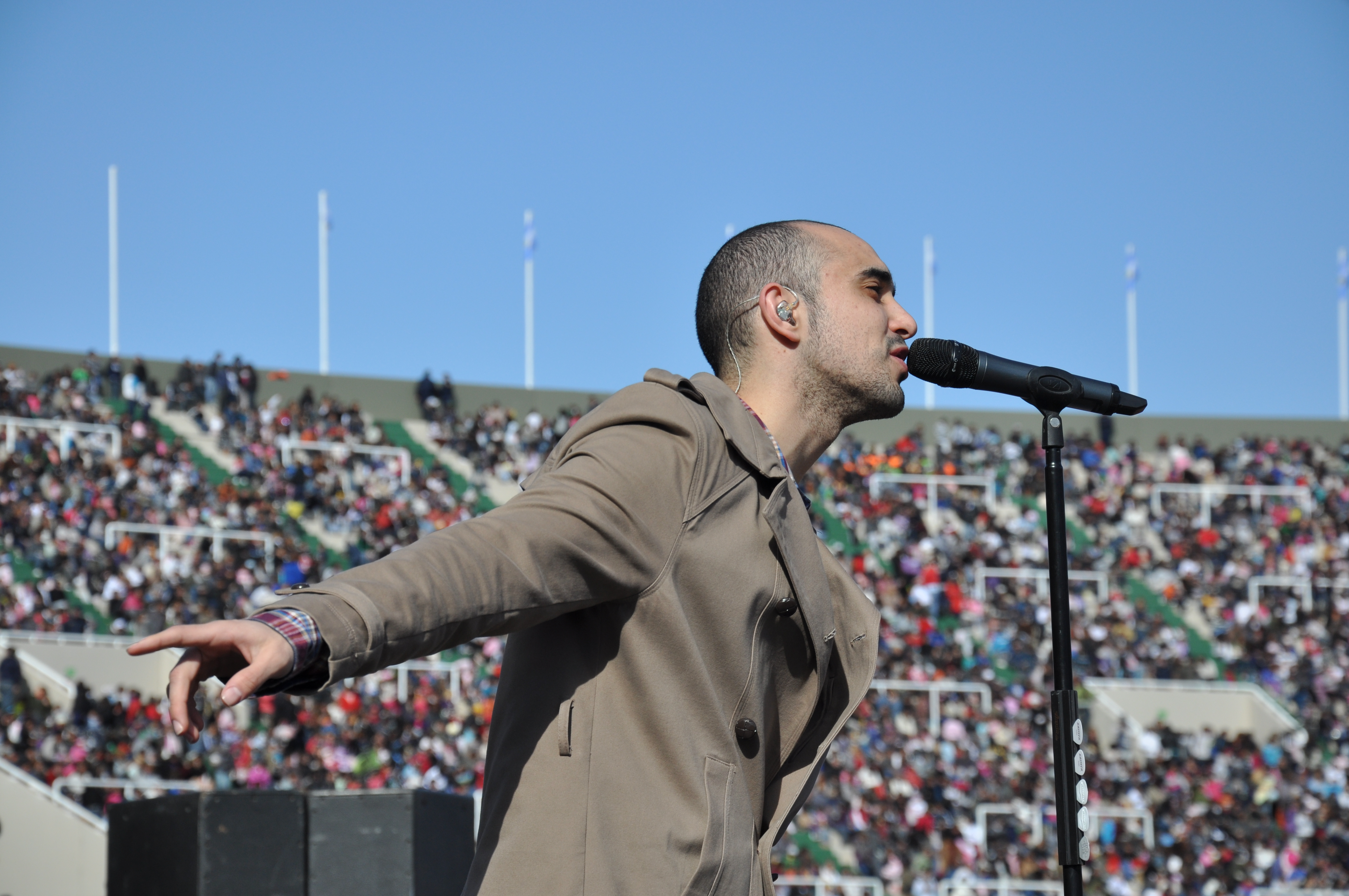 Abel Pintos at a concert in Cordoba, Argentina.